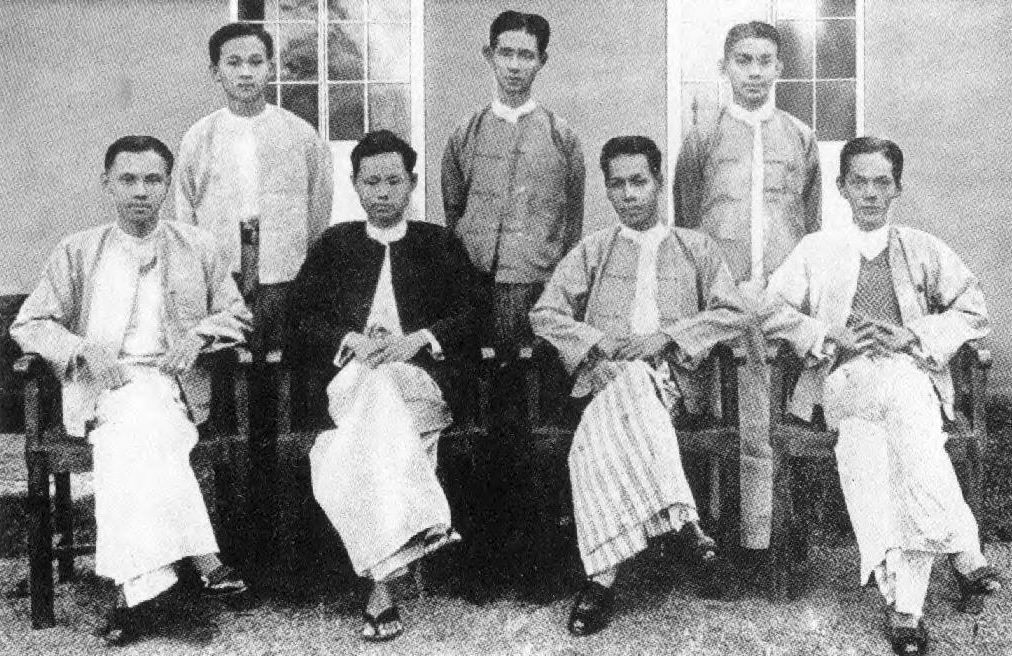 Editorial Committee of Oway Magazine. Ko Aung San, the Editor, is seated second from left.